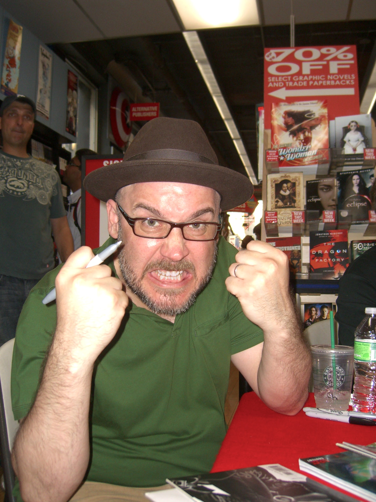 Writer Ed Brubaker at a book signing at Midtown Comics Times Square in Manhattan, June 21, 2010. Photo by Luigi Novi. This photo may be used and modified, for any purpose, only if the photographer is visibly credited in each instance in which it is used. (See licensing information below.) For more information on my photos, you can contact me here.